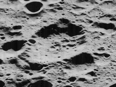 Oblique view of Moore, on the far side of the moon, facing west.